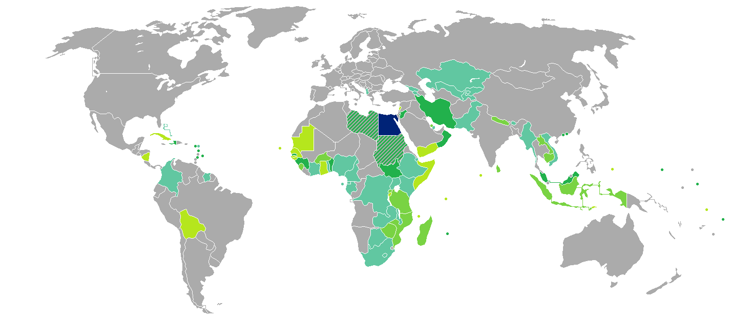 Visa requirements for Egyptian citizens Egypt Visa free access Visa on arrival eVisa Visa available both on arrival or online Visa required